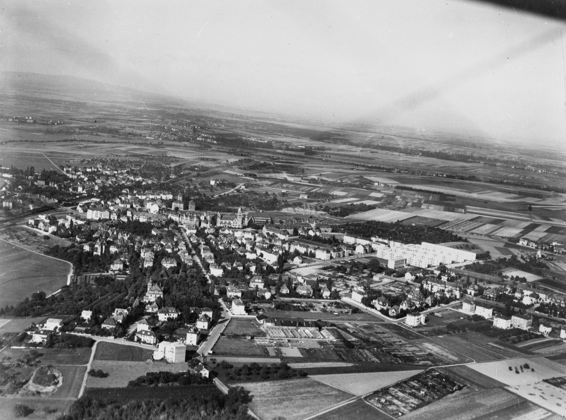 Frankfurt on the Main: Aerial photograph of Eschersheim